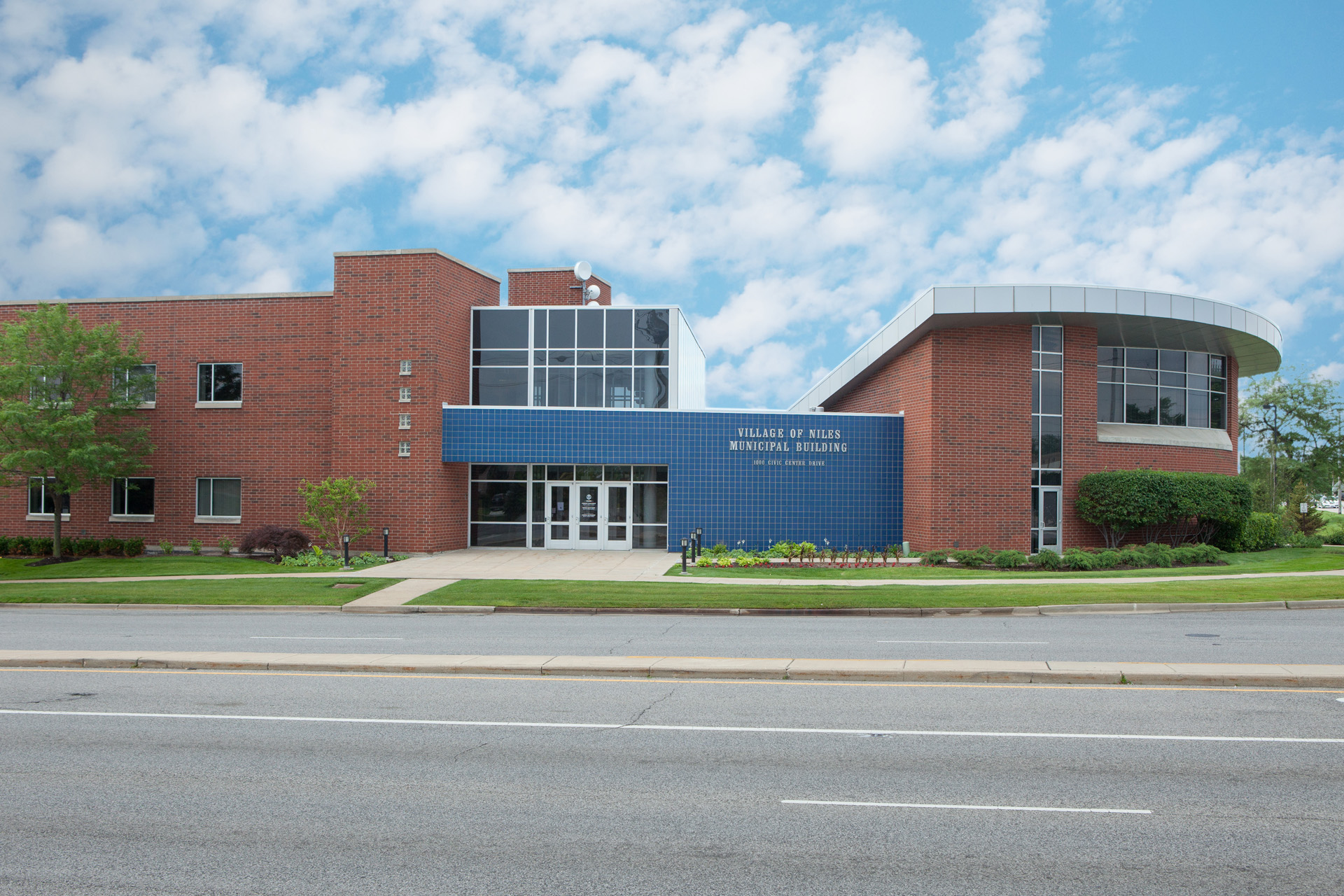 A picture of Niles Village Hall in Niles, Illinois provided by the Village of Niles